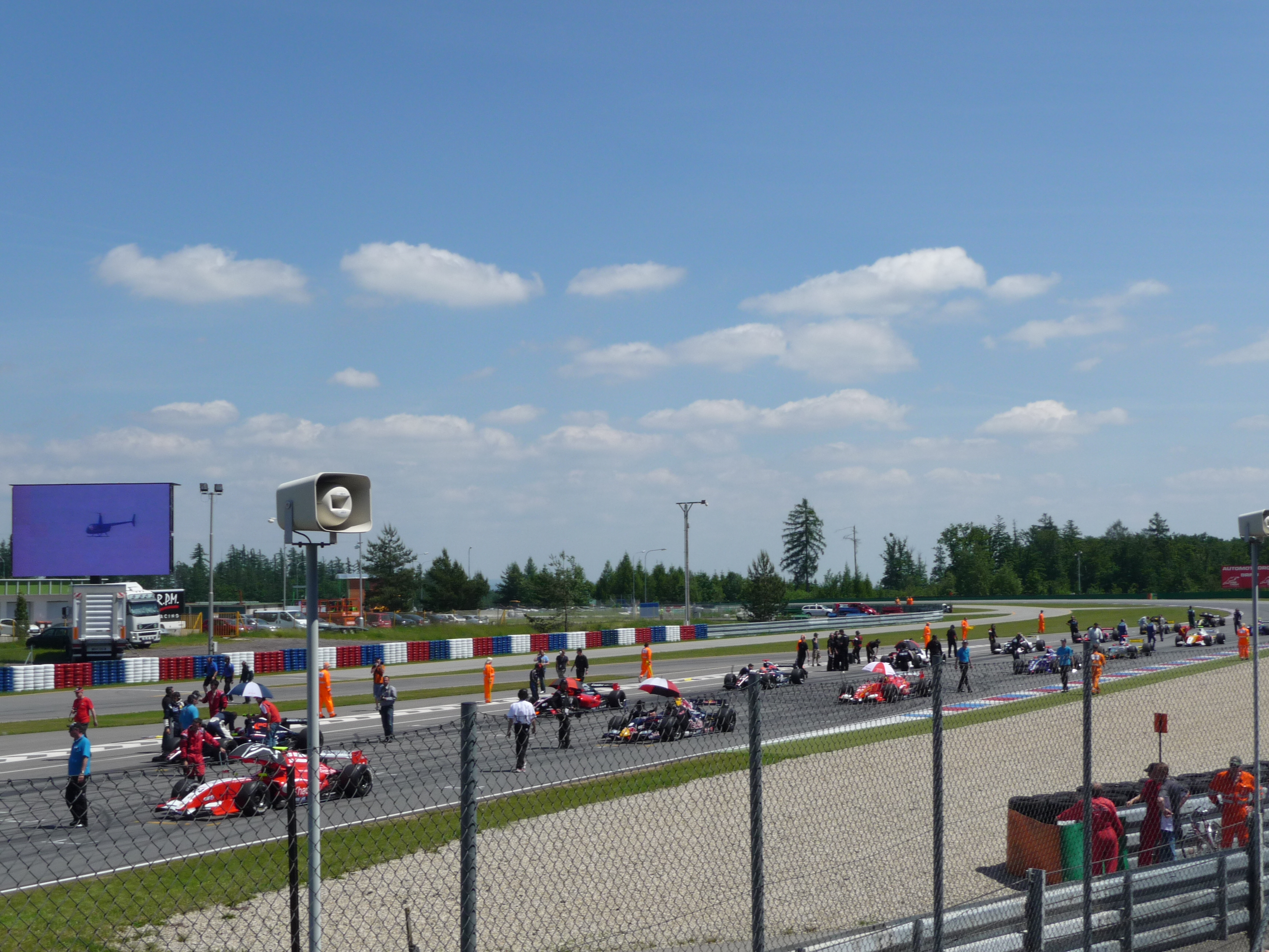 Jon Lancaster, Daniel Zampieri, Daniel Ricciardo, Greg Mansell, Sten Pentus, Federico Leo, Mikhail Aleshin, Bruno Méndez, Albert Costa, Omar Leal, Anton Nebylitskiy, Jake Rosenzweig, Sergio Canamasas, Víctor García a Keisuke Kunimoto, Formula Renault 3.5 Series, 2nd race, 2010 Brno World Series by Renault -10-5-3-2◄►+2+3+5+10